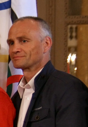 The judokas - from left: Klaus-Peter Stollberg (coach), Taro Netzer (coach), Hilde Drexler, Ludwig Paischer, Sabrina Filzmoser, Udo Quellmalz (coach) and Othmar Haag (coach) - at the official farewell of the Austrian team for the 2012 Summer Olympics in London at the ceremonial hall of Hofburg Palace in Vienna.